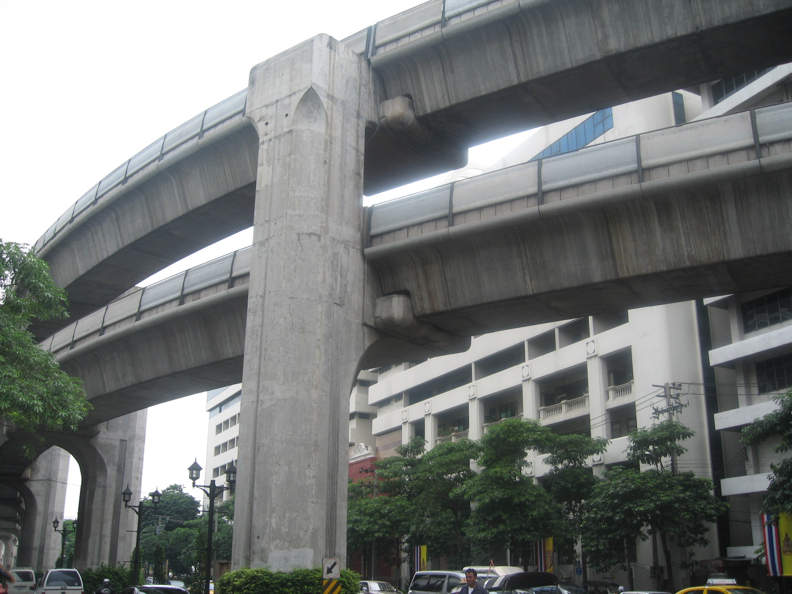 BTS viaducts at junctions of Thanon Phloenchit and Thanon Ratchdamri (Bangkok Skytrain).